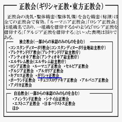 Explanation of Eastern Orthodox Church organization in Japanese